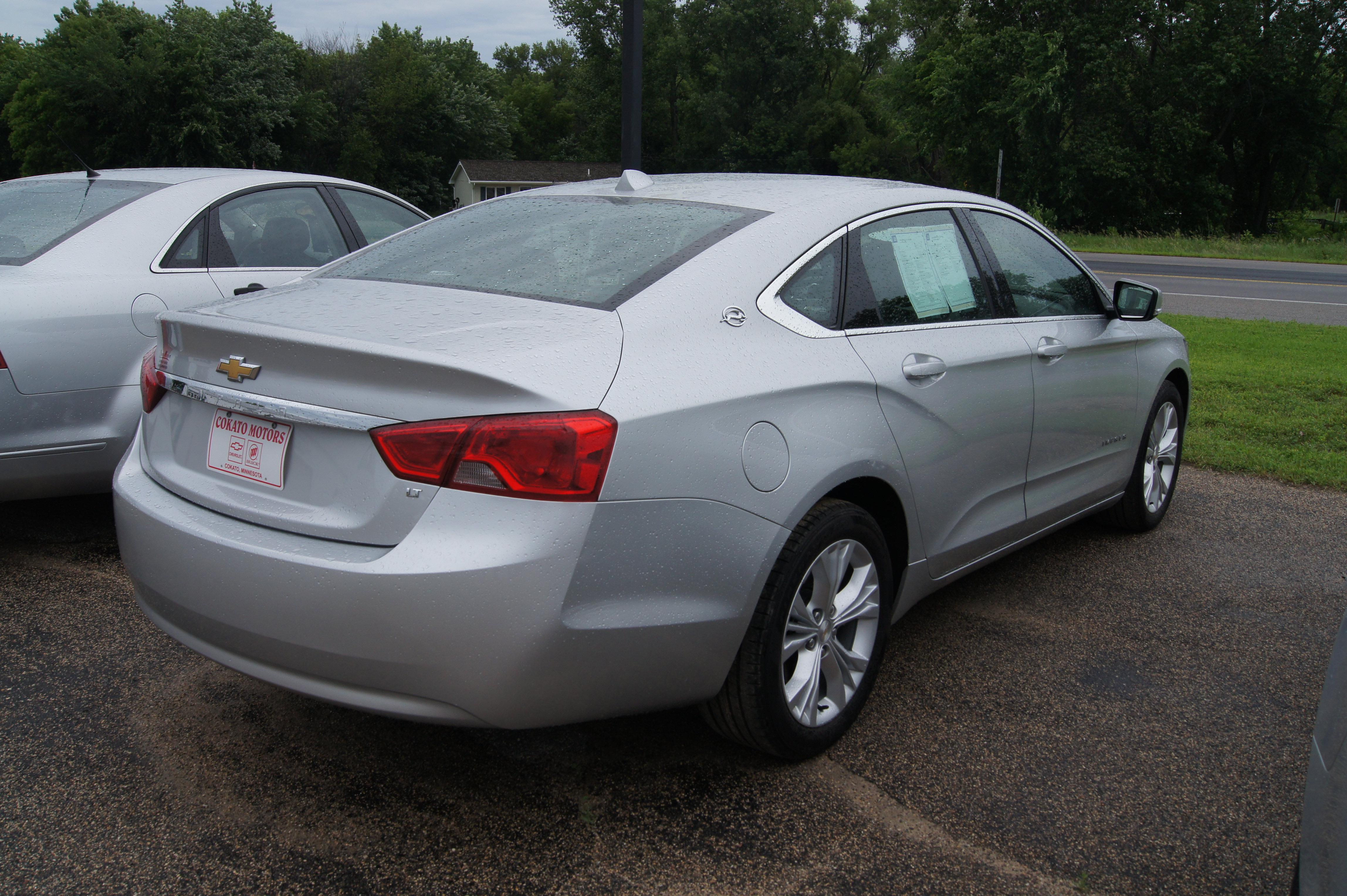 I bought my 2005 Dodge Magnum RT from Walser Chrysler Dodge in Hopkins. It came with free oil changes for life. I used to have relatives near the dealership that I would visit. They have all moved away, so now I just try to coordinate some car spotting for the trip. More Car Pictures